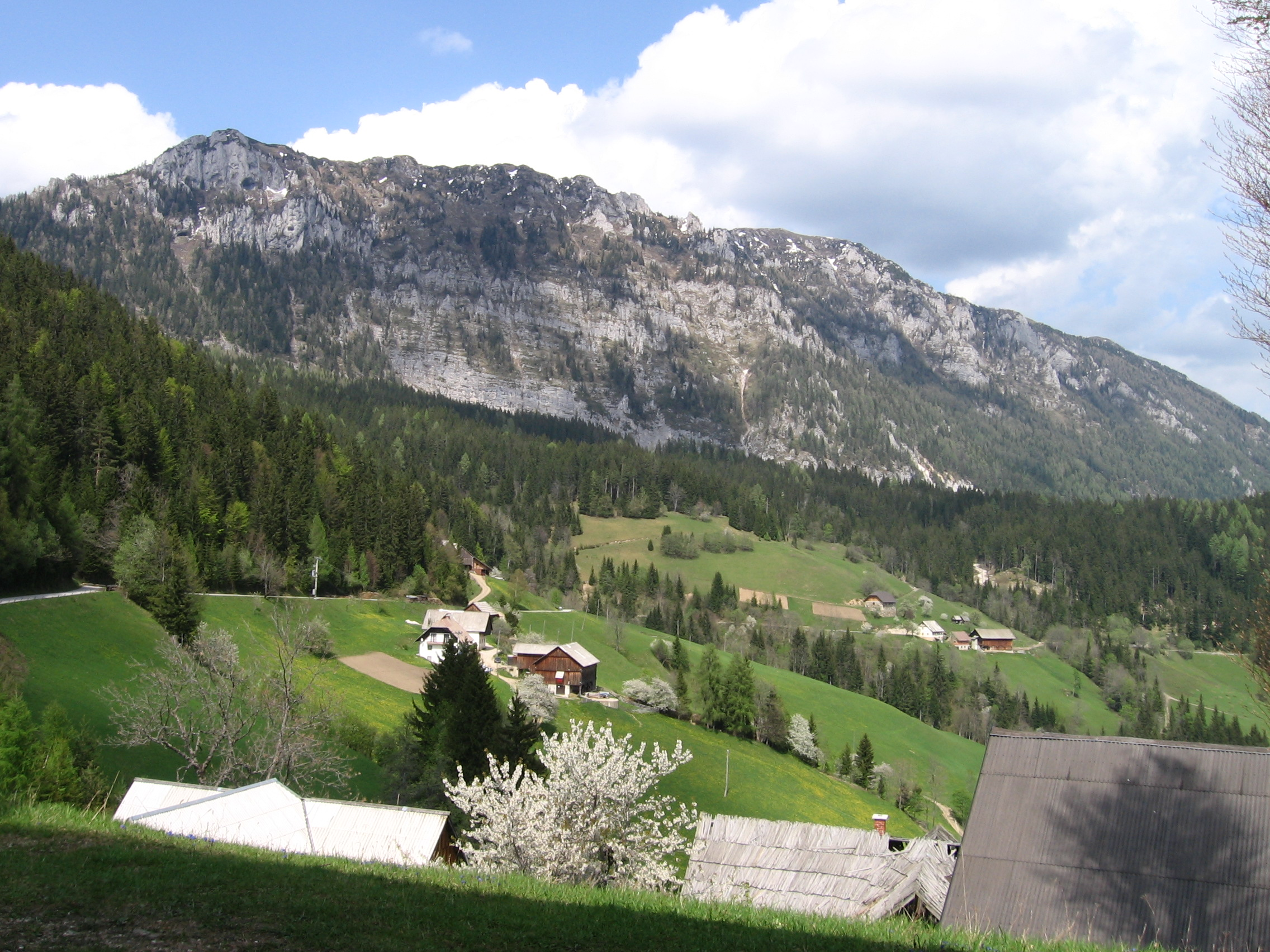 Podolševa village with mount Olševa (1.929 m), Karavanke / Karawanken, Slovenia Podolševa z Olševo, Karavanke